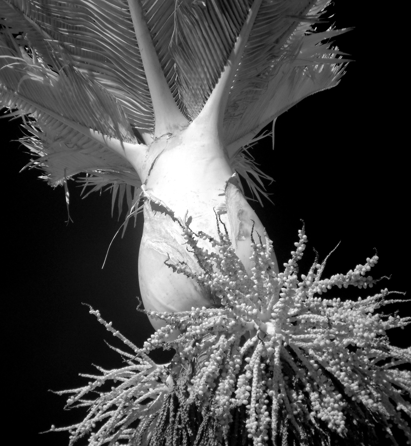 Infra-red photo of a Nikau palm. Taken with a Fuji 6900 with its IR-blocking filter removed and a visually opaque IR filter. Location : Lower Hutt, New Zealand